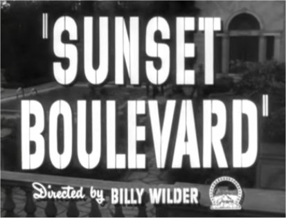 Screenshot taken by me (Icea) from the trailer to the movie Sunset Blvd.